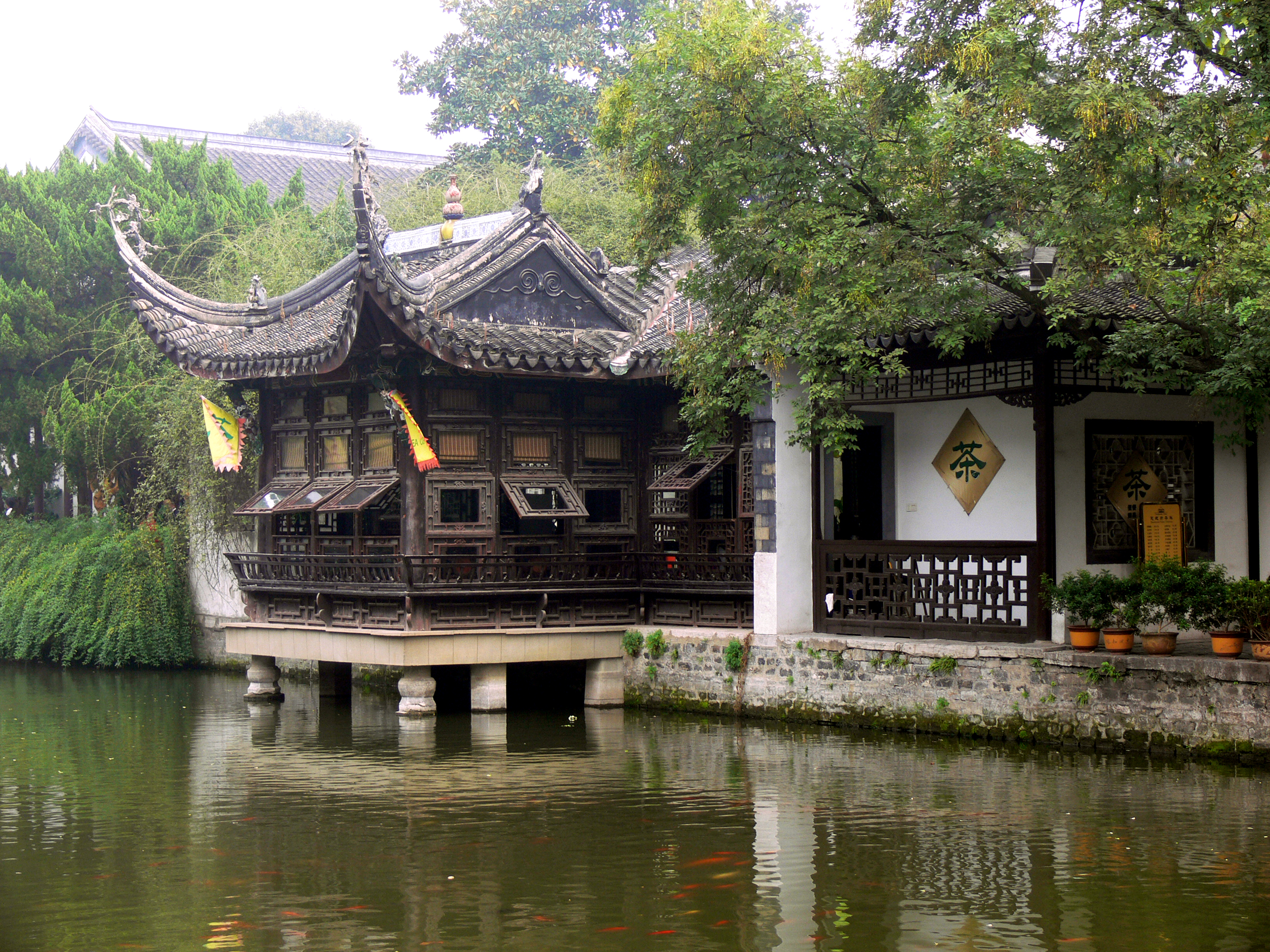 A teahouse in the Nanjing Presidential Palace garden. 夕佳楼，1870年重建。国民政府军事委员会办公室。